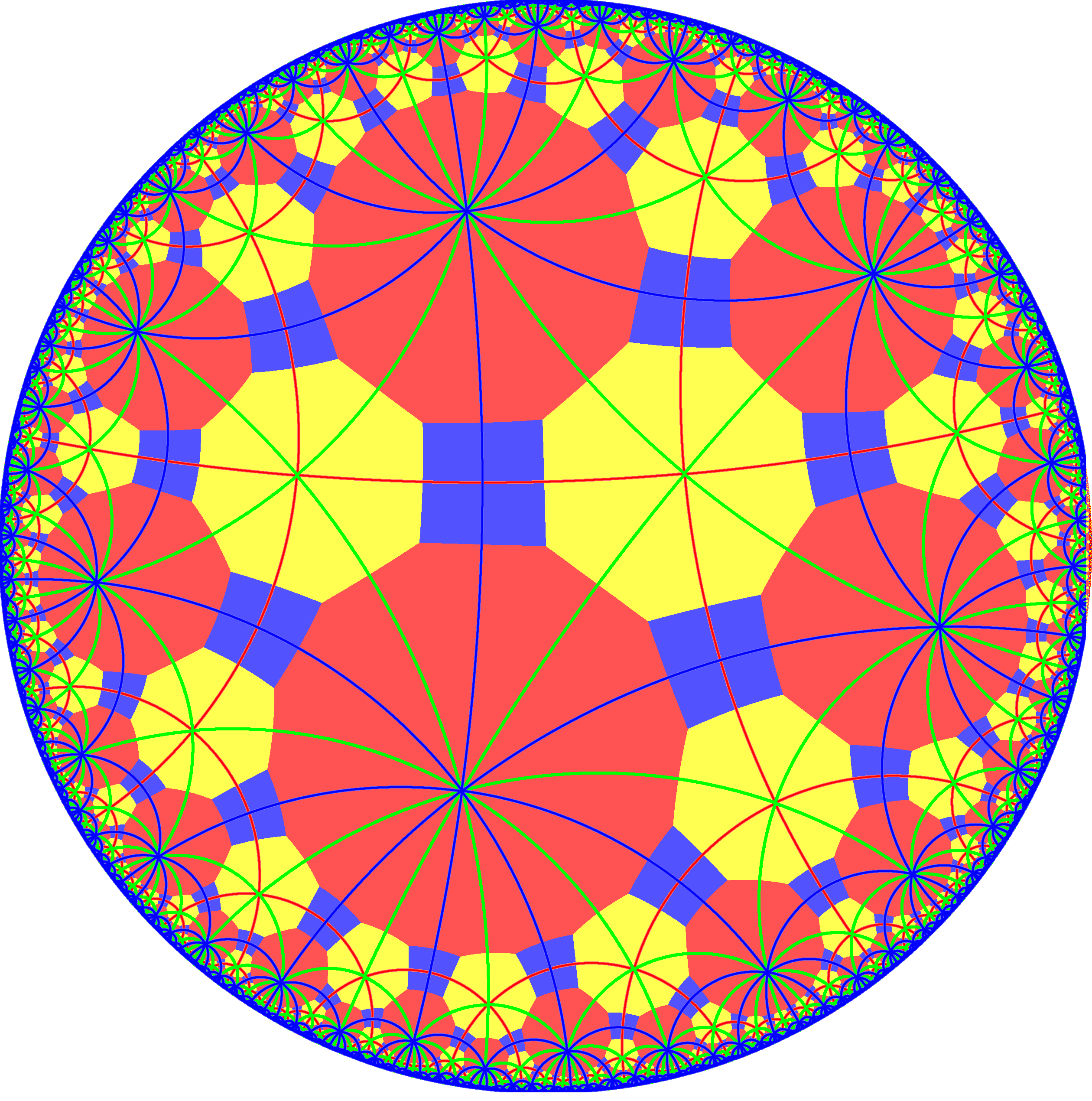 Truncated tetraoctagonal tiling